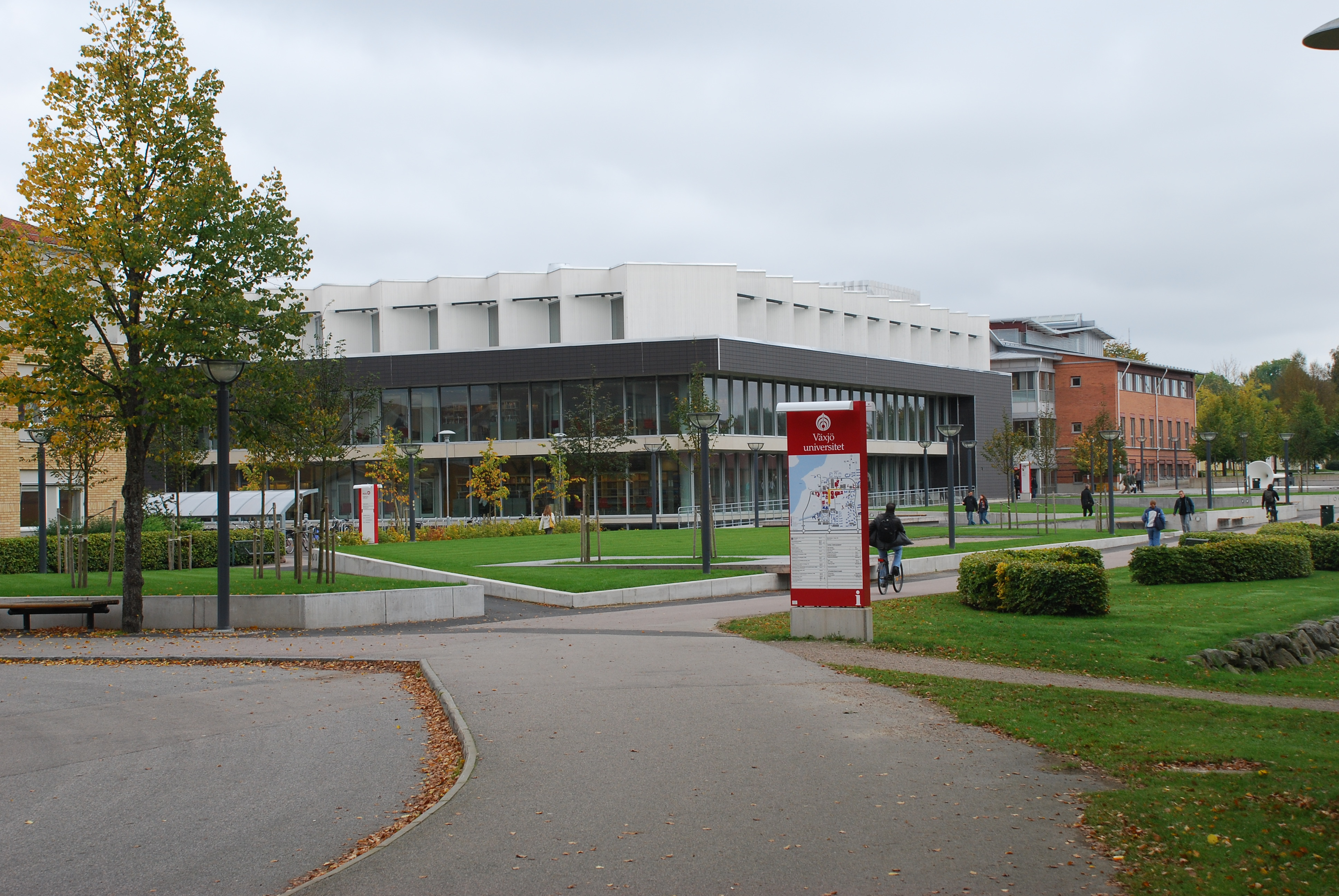 Växjö university, the new library building